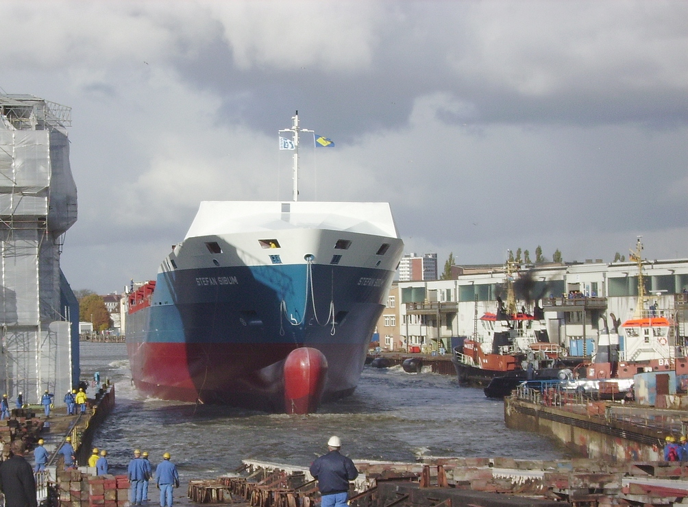 Launching of the container ship Stefan Sibum at SSW shipyard in Bremerhaven, Germany